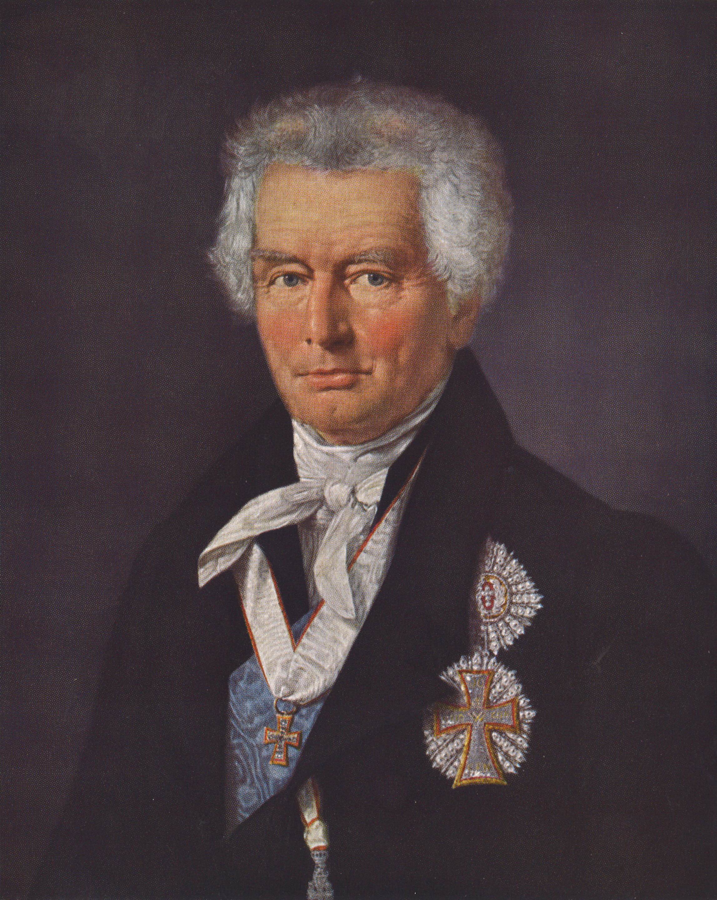 Christian Ditlev Frederik Reventlow (1748-1827), Danish count, statesman, land owner and reformer